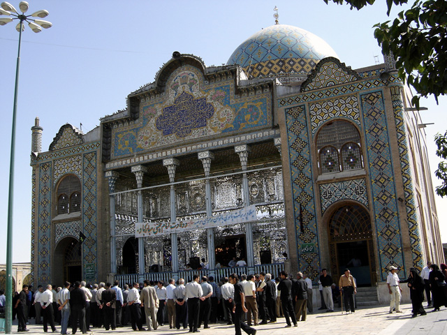 I took this picture in Summer 2005.